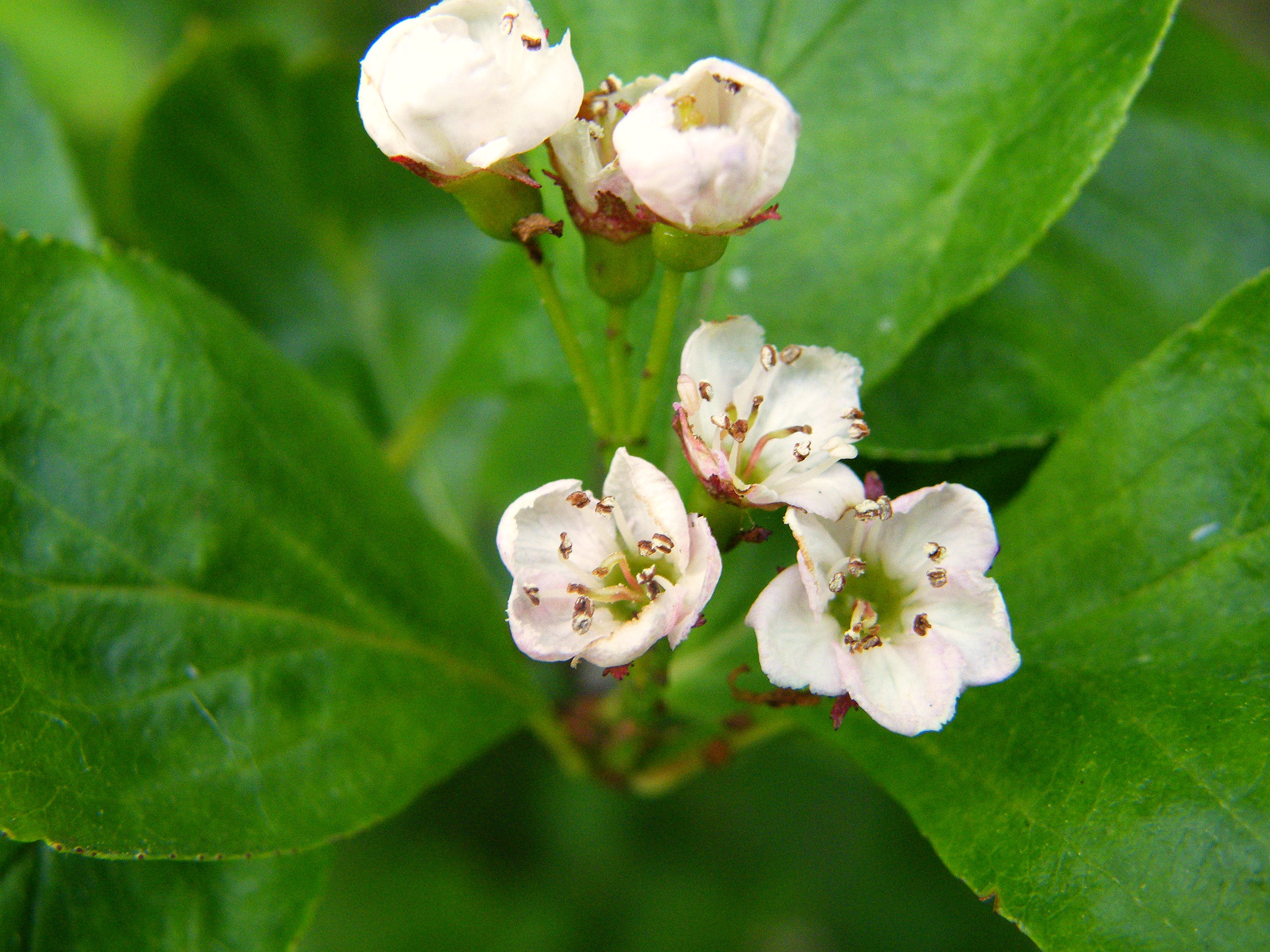 Unidentified Crataegus (not Gaultheria humifusa)